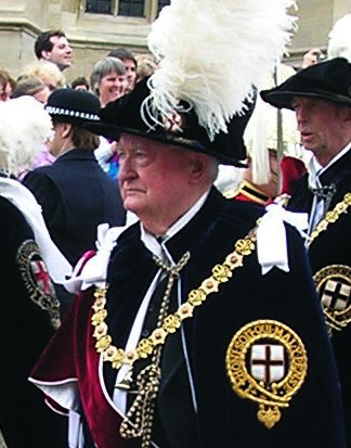 Lord Bramall wearing his robes as a Knight Companion of the Order of the Garter, in procession to St George's Chapel, Windsor Castle for the annual service of the Order of the Garter.